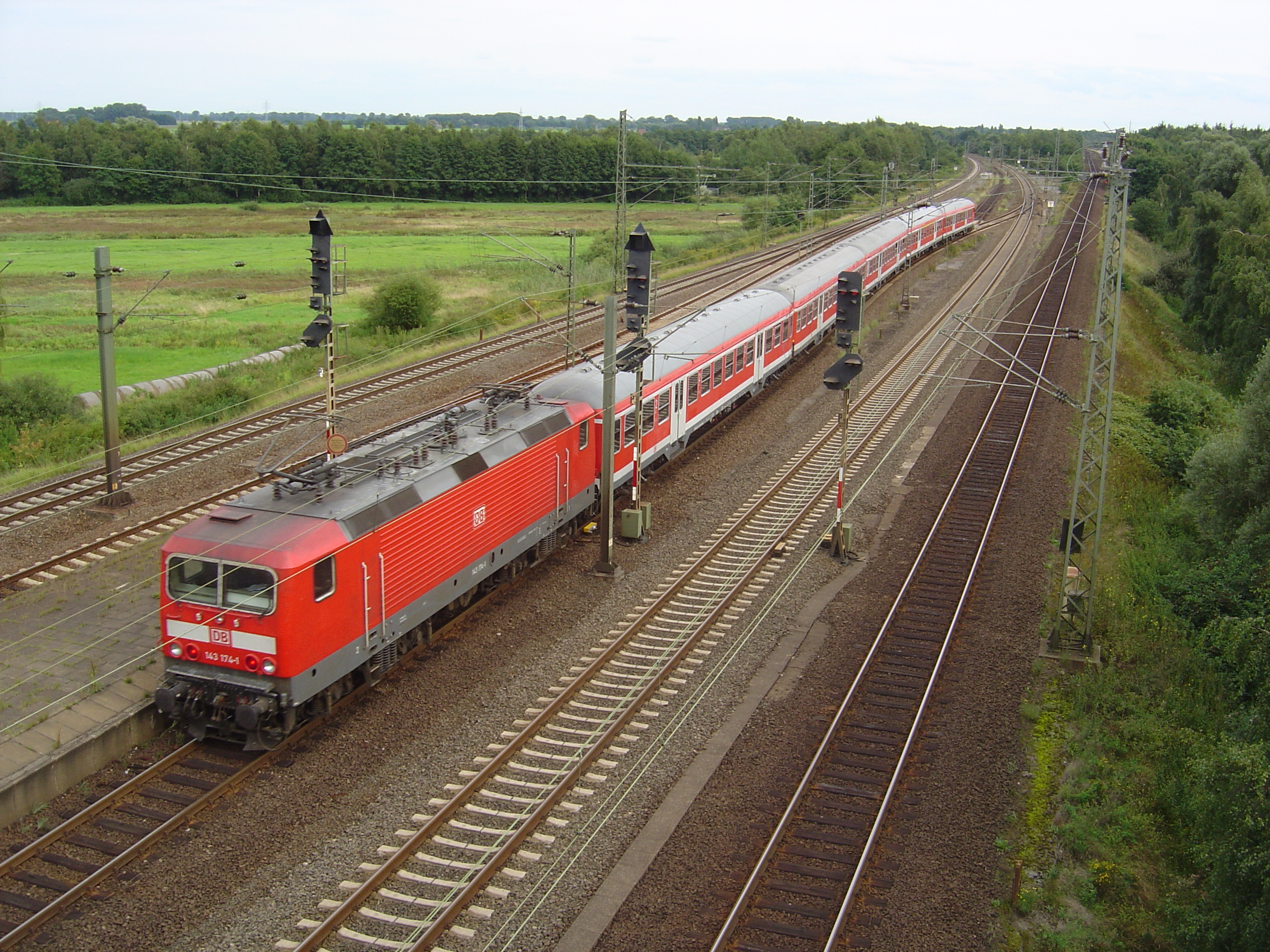 Regional train of the Deutsche Bahn AG departs from Maschen train station heading to the south direction.